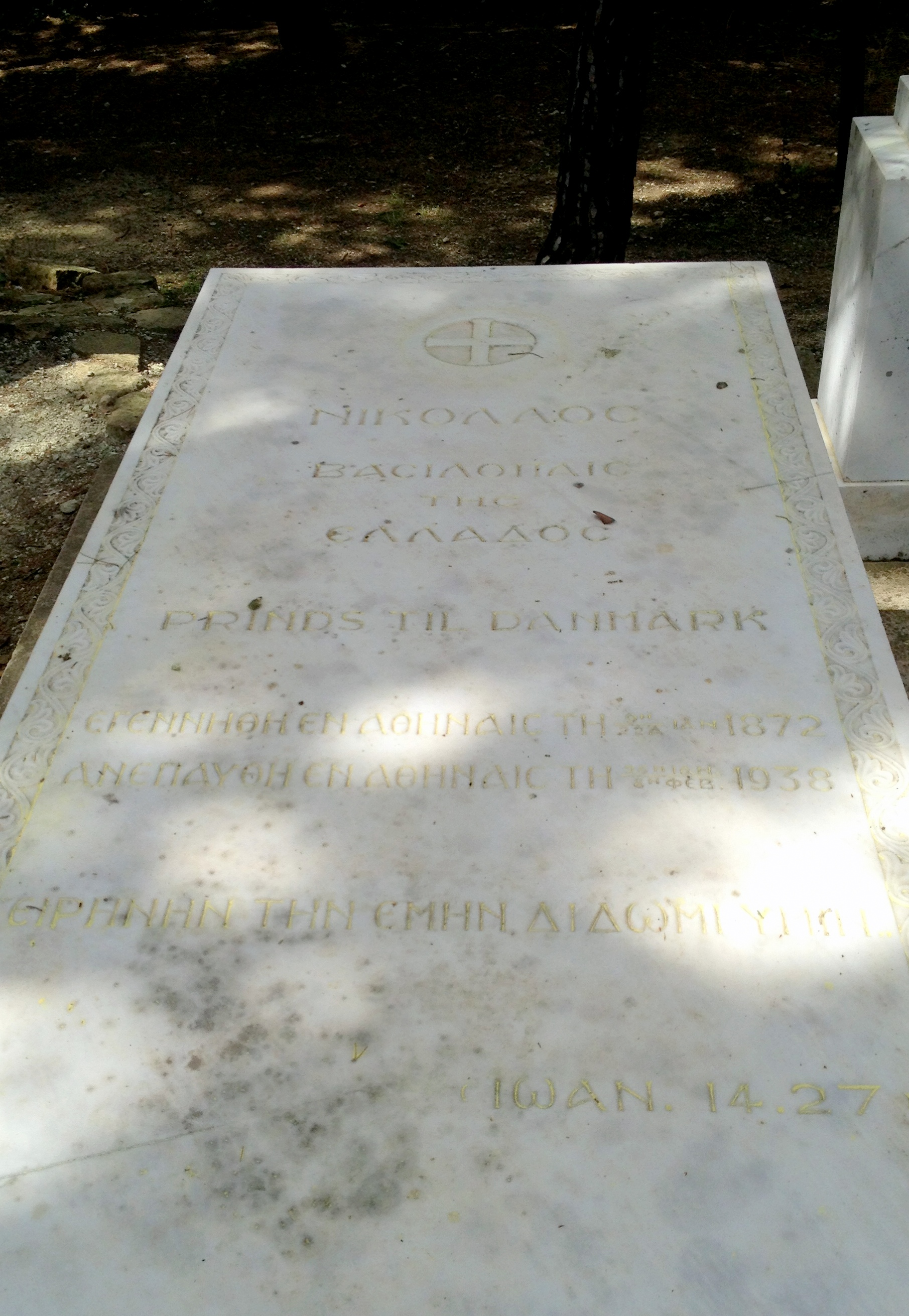 Tomb of Prince Nicholas of Greece and Denmark